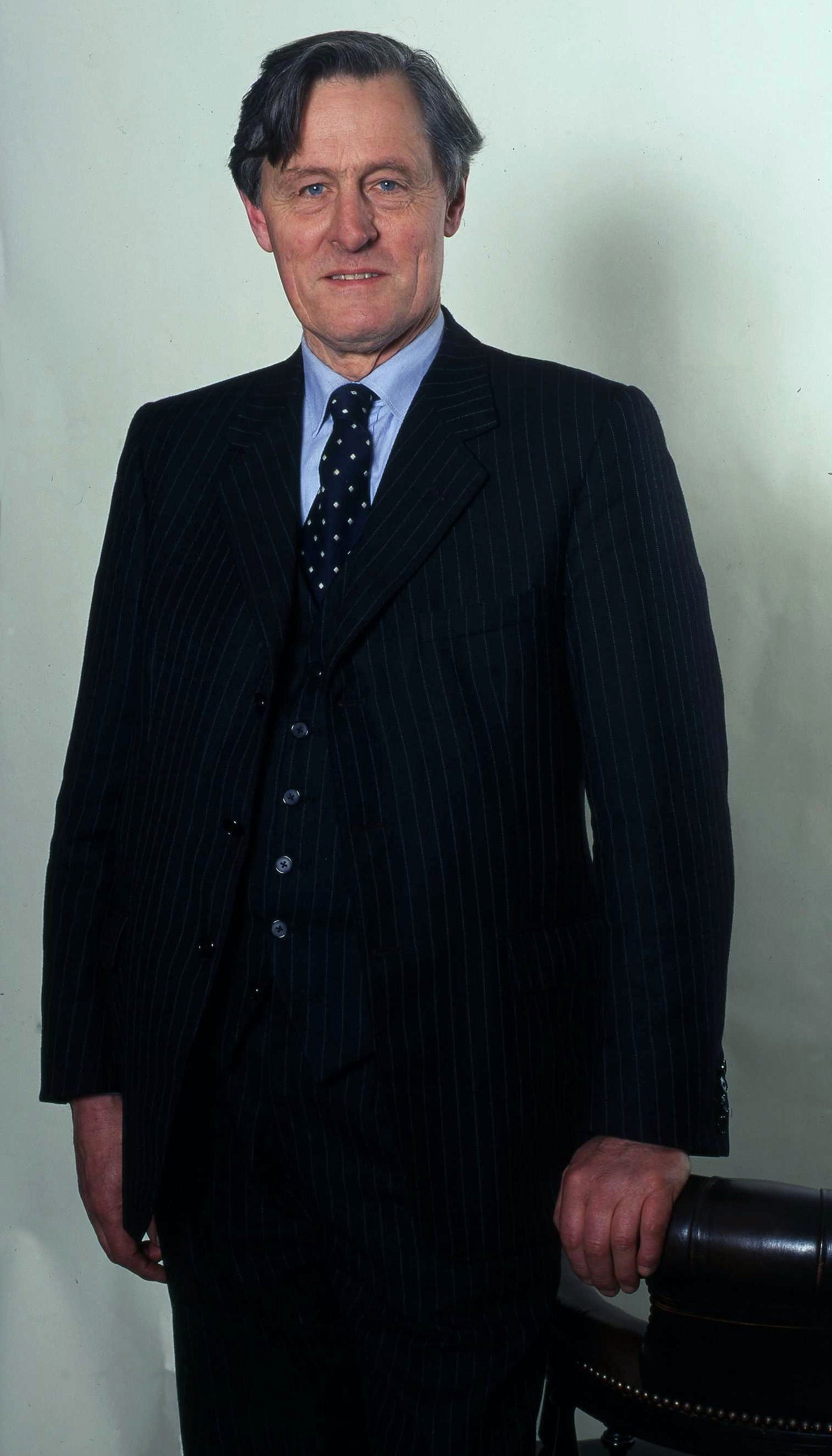 portrait of The 8th Duke of Montrose